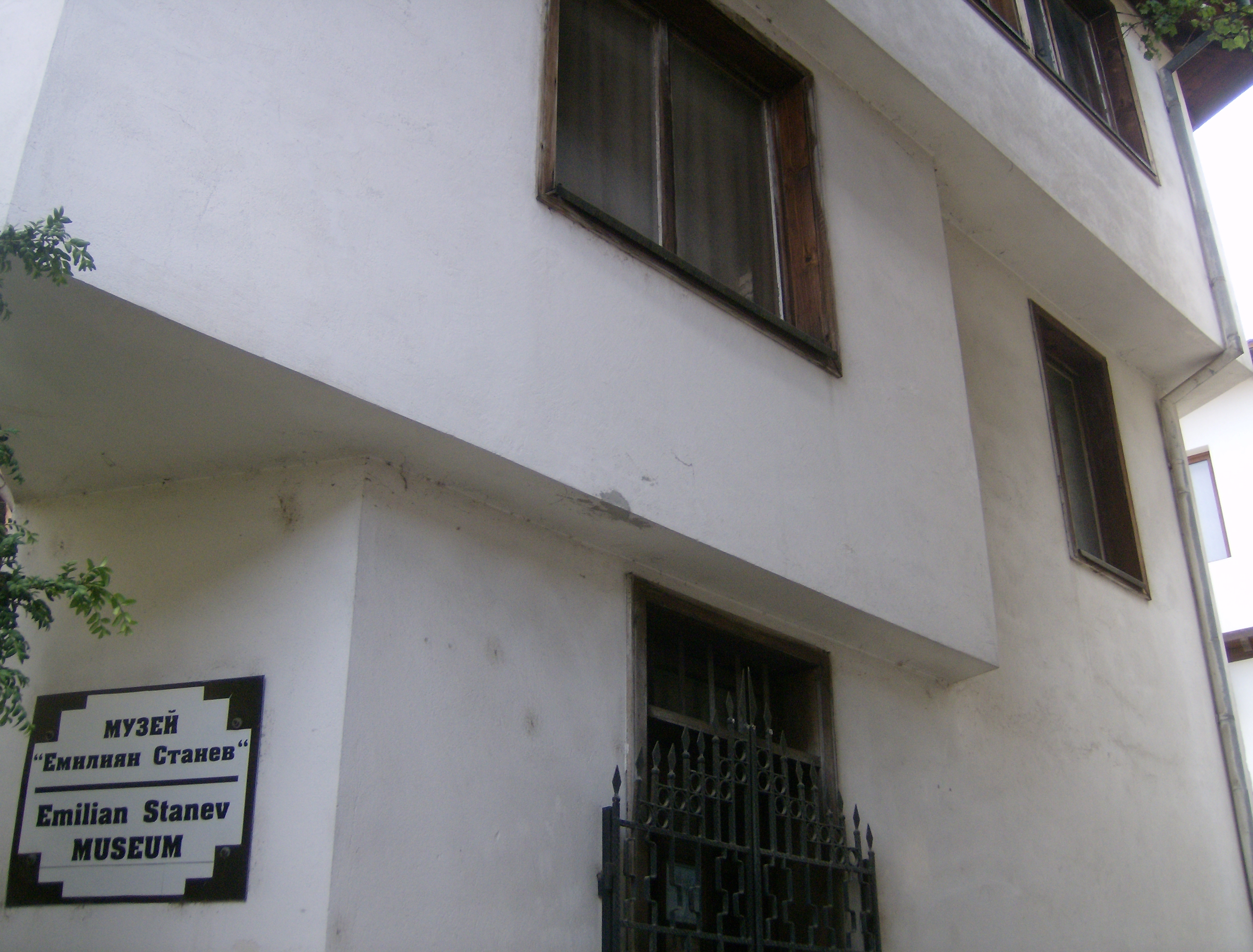 Emiliyan Stanev Museum, Veliko Turnovo